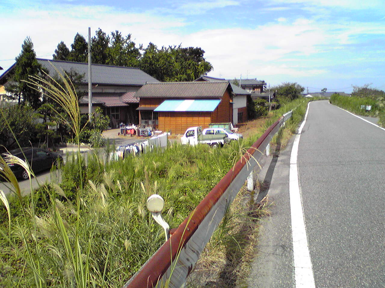 The remains of Sennichi Station, Niigata Kotsu Railway which became the abolished line on April 5, 1999. This station became the abandoned station on April 5, 1999.